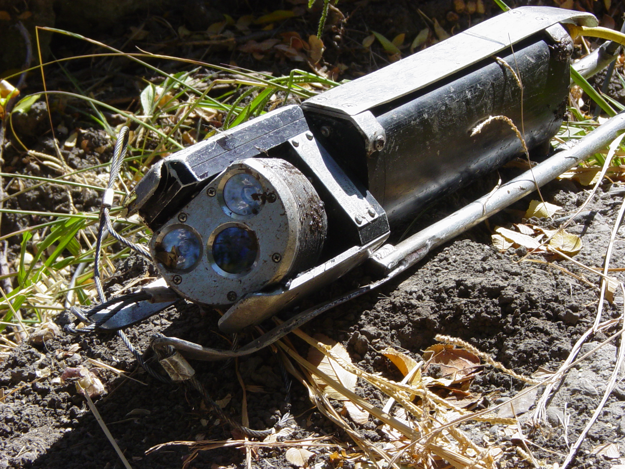 Pipeline video inspection device with lights and camera on swiveling head. The device has been towed through a small sewer pipe by an attached cable. Image by User:Leonard G.